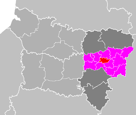 Maps of arrondissements and cantons of France: Arrondissement de Laon